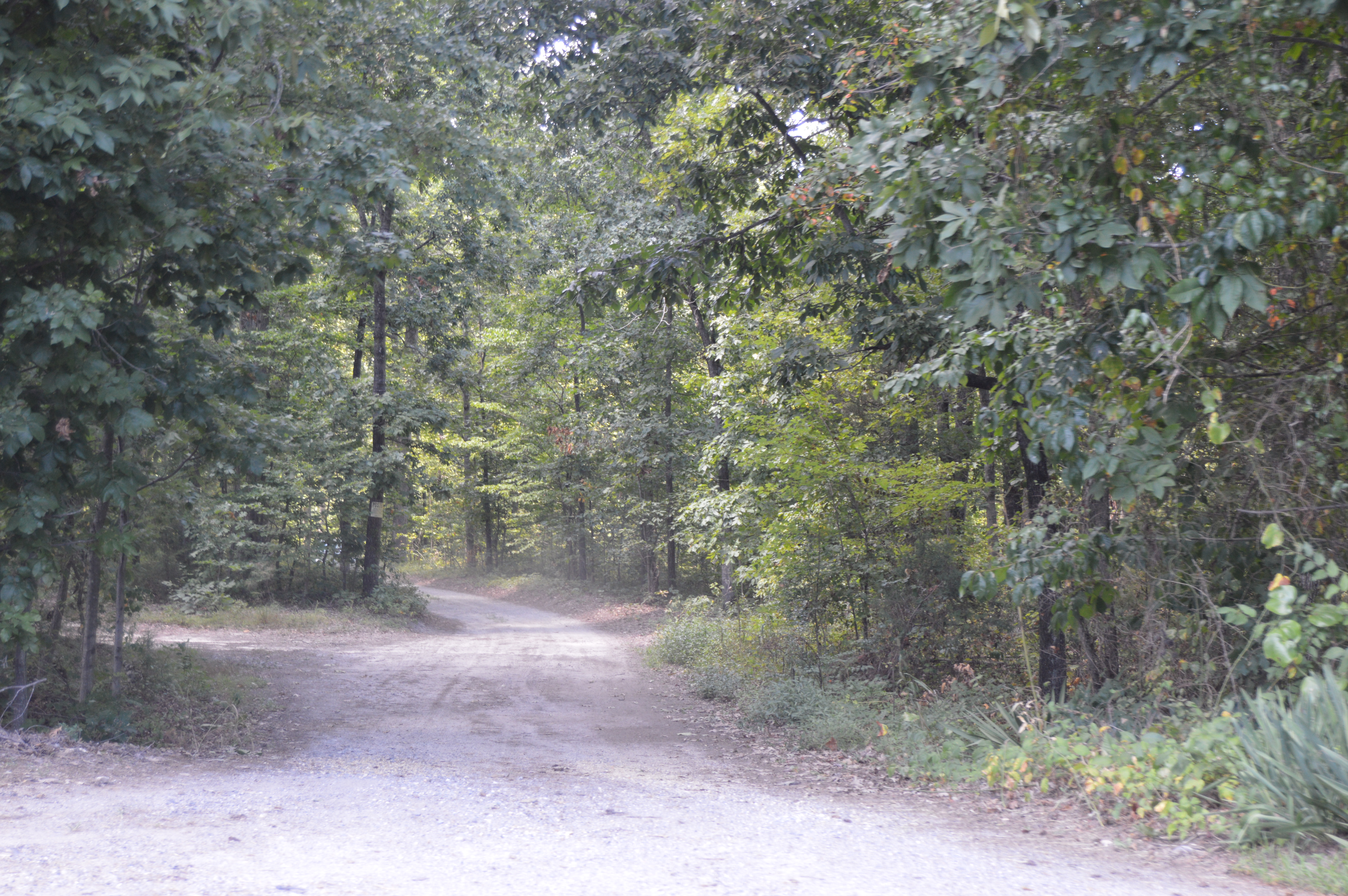 Entrance to the Sharp's Oakland estate, located at 12308 Verdon Road north of Ashland in Hanover County, Virginia, United States. The estate is listed on the National Register of Historic Places.